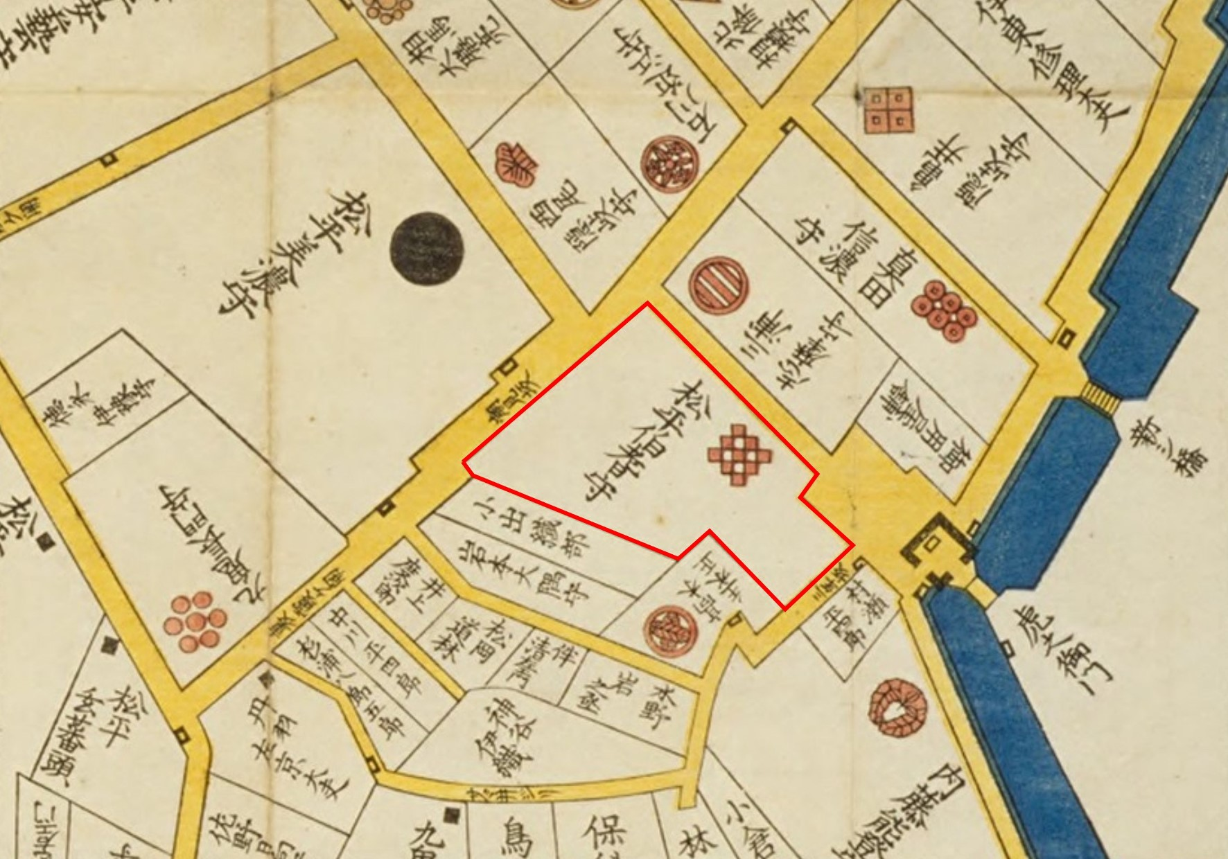 REsidence of Honjô clan at Edo